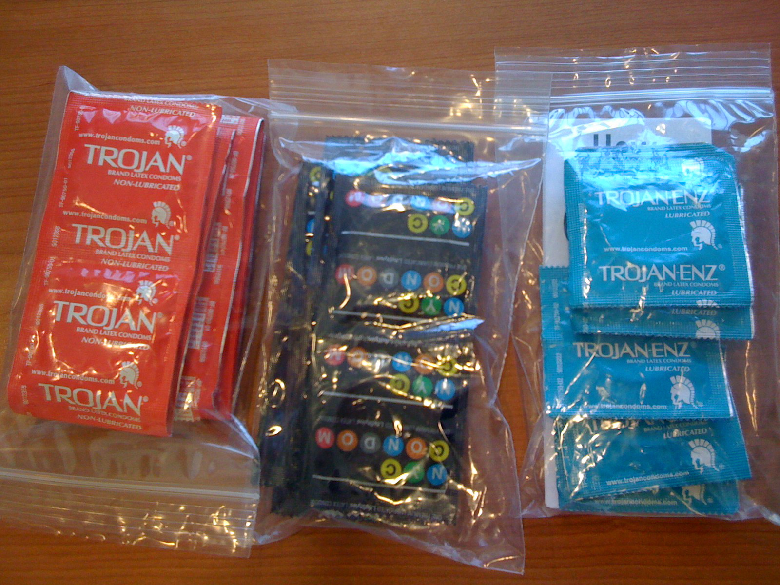 Male condoms in packages